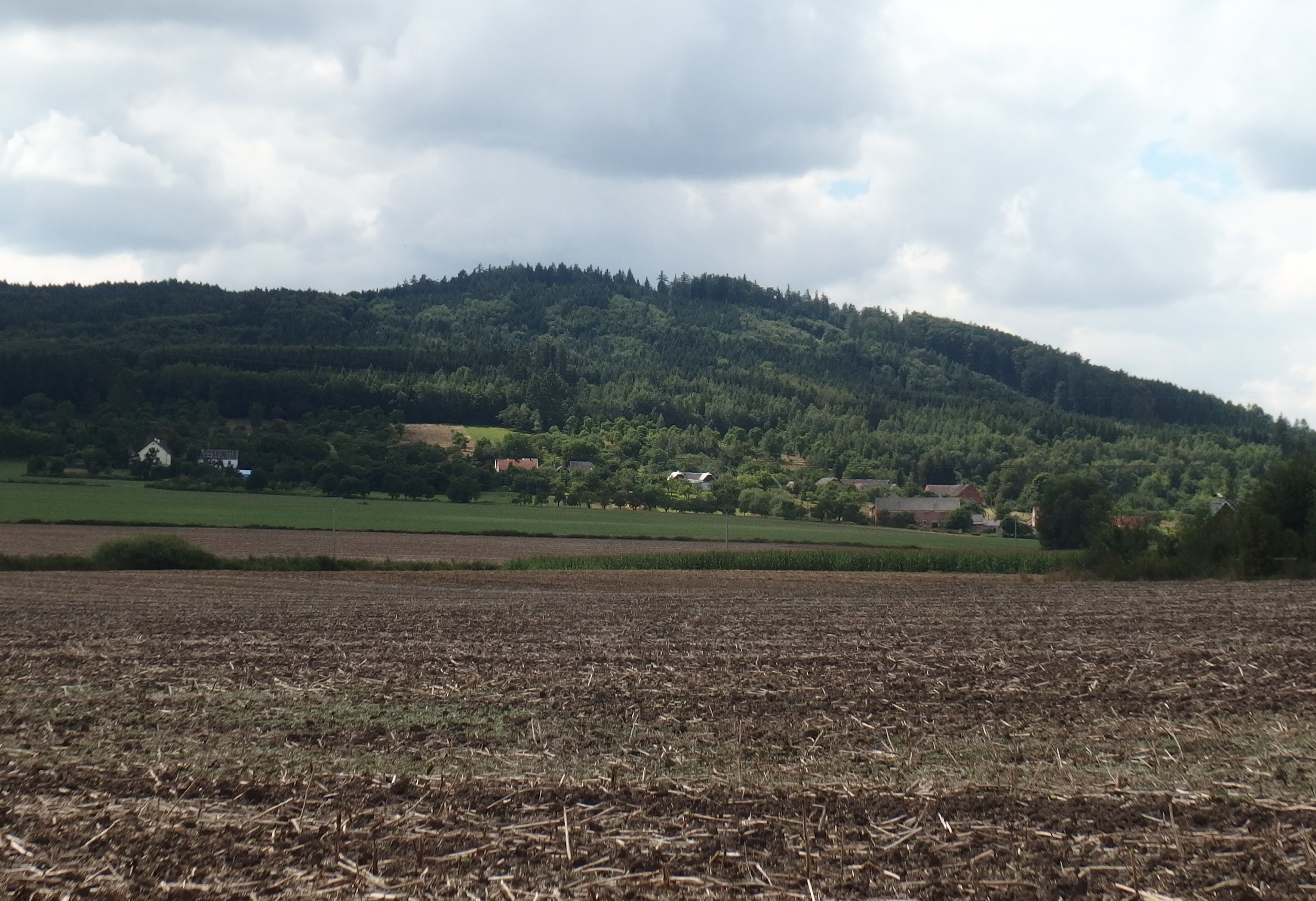 Staré Město, Svitavy District, Czech Republic, part Bílá Studně.